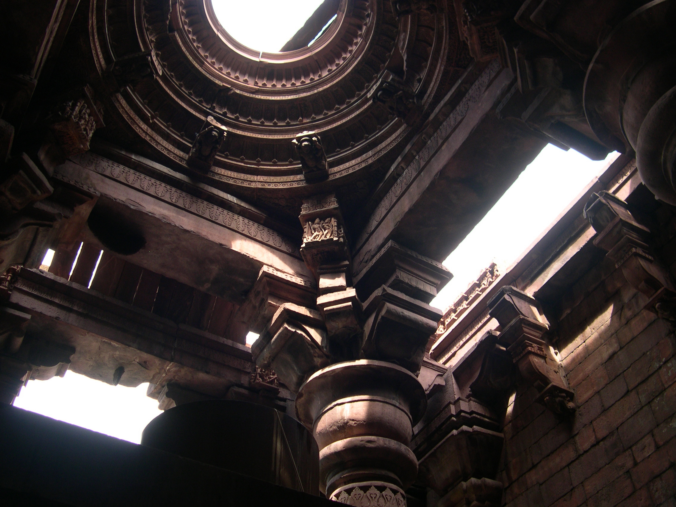 Interior of the temple at Bhojpur, Madhya Pradesh, India, showing the interior of the dome before conservation works. 11th century